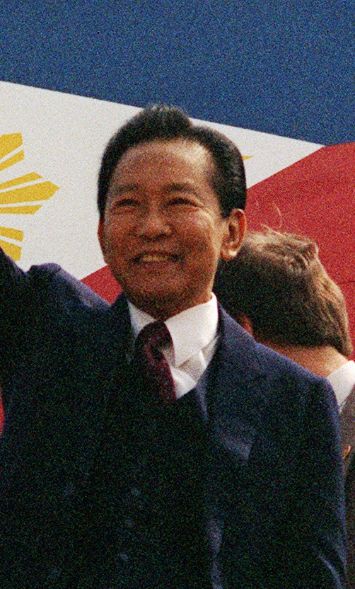 Cropped picture of President Marcos in Washington (1983) from a Defense Department photo.